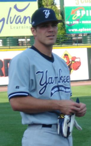 Eric Duncan 06:21, 9 June 2008 . . Phil5329 . . 308×492 (22 KB)